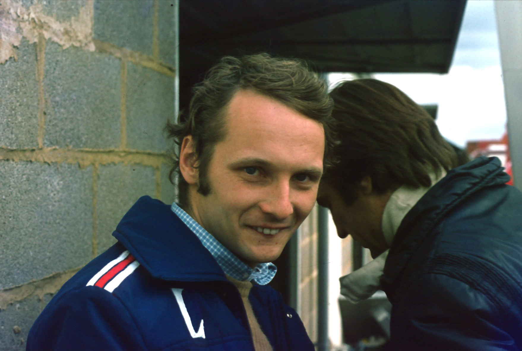 Niki Lauda while at Silverstone pitlane with Carlos Reutemann in background, 1975 British Grand Prix.